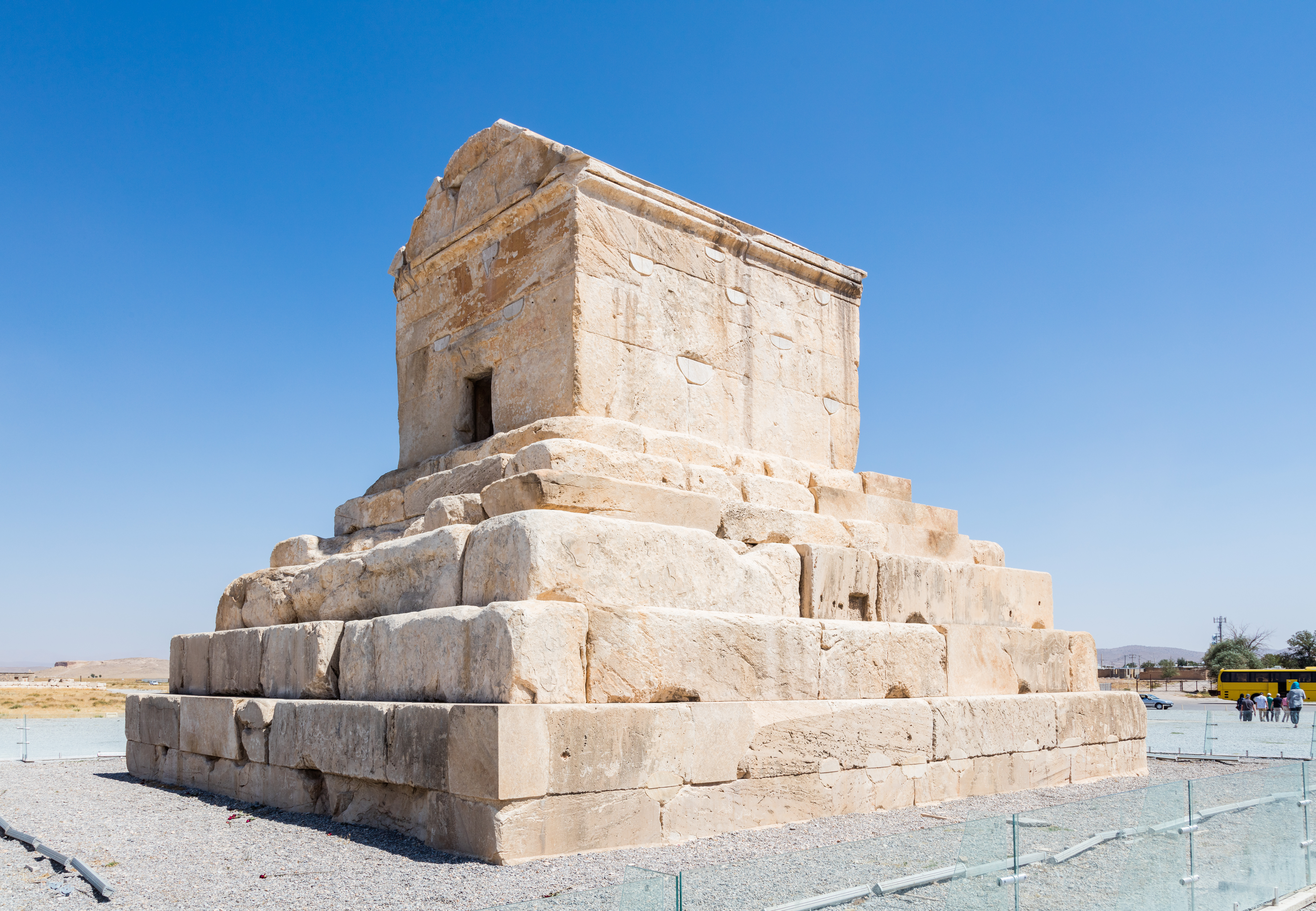 Pasargadae, Iran